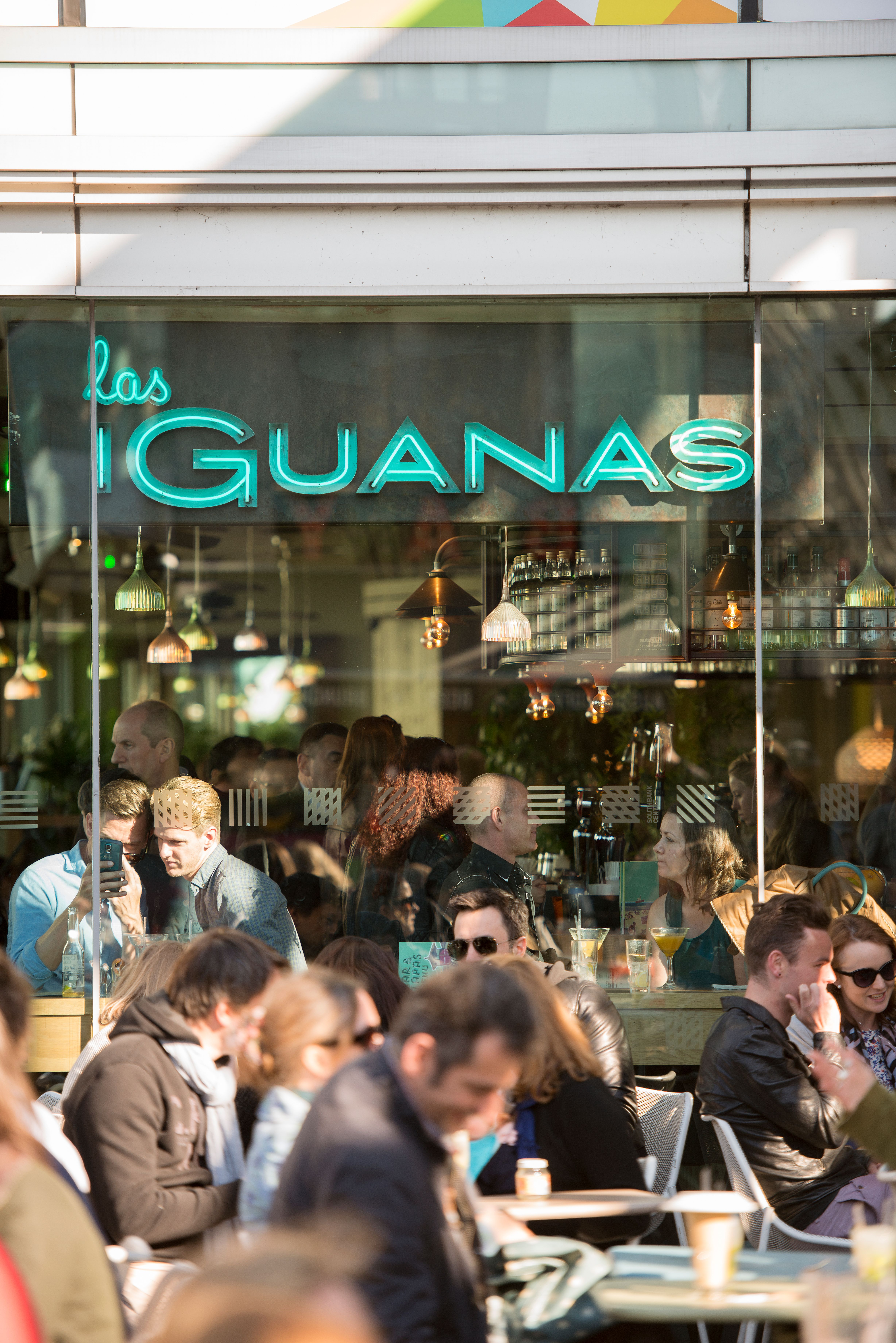 Outside at Las Iguanas Restaurant, Royal Festival Hall, Southbank Centre, London, people dining